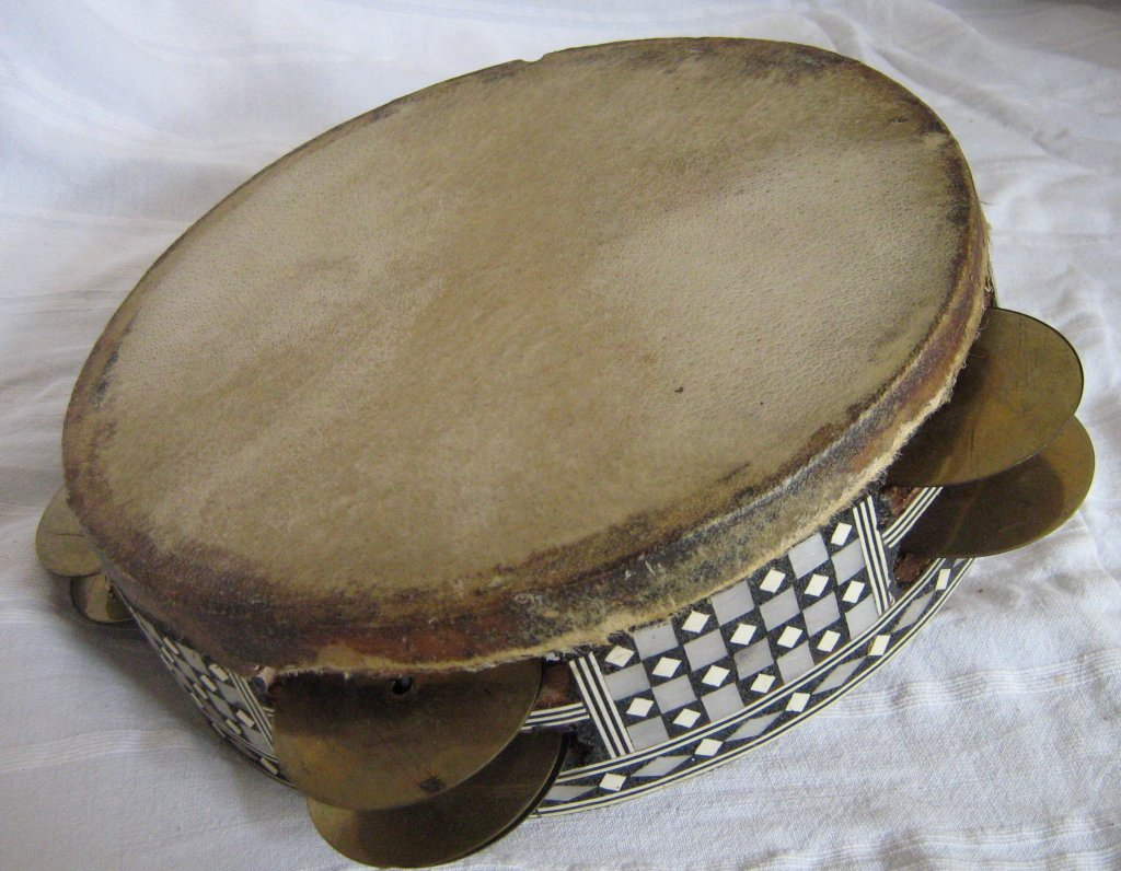 egyptian riqq (fram drum with jingles)